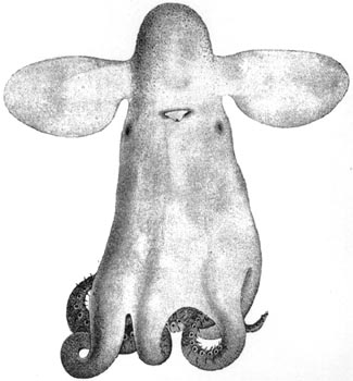 Drawing of the octopus Grimpoteuthis megaptera.